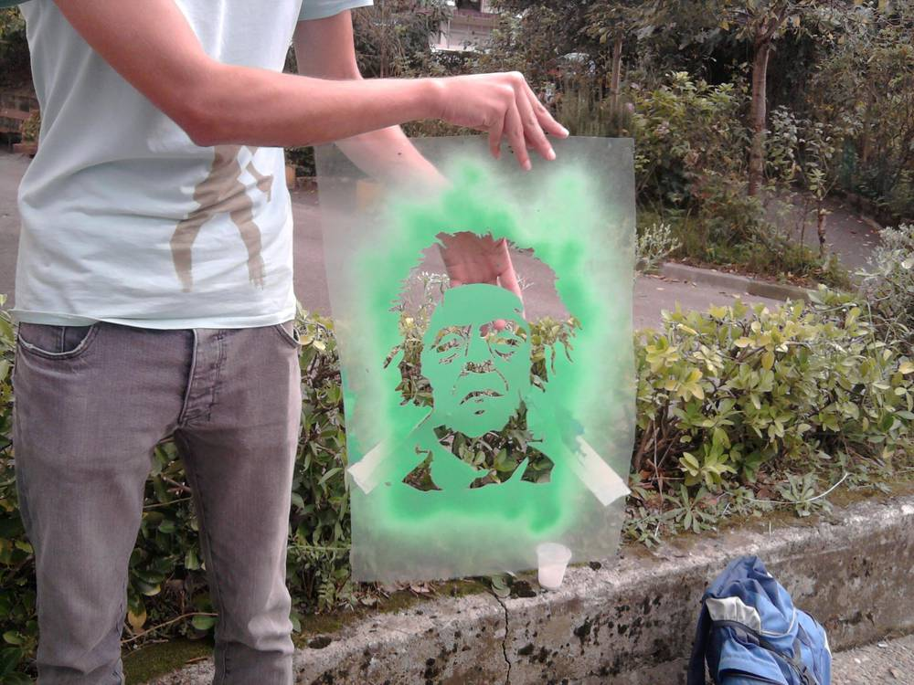 Stencil model to make graffiti. Half Einstein half Frankenstein.